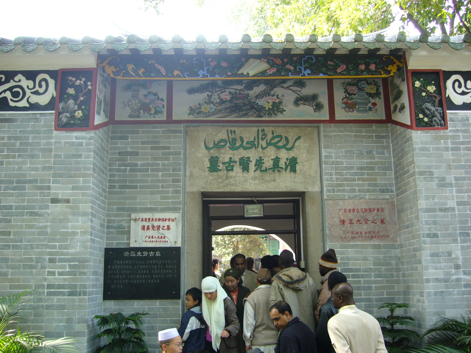 \Abu Waqas Mosque